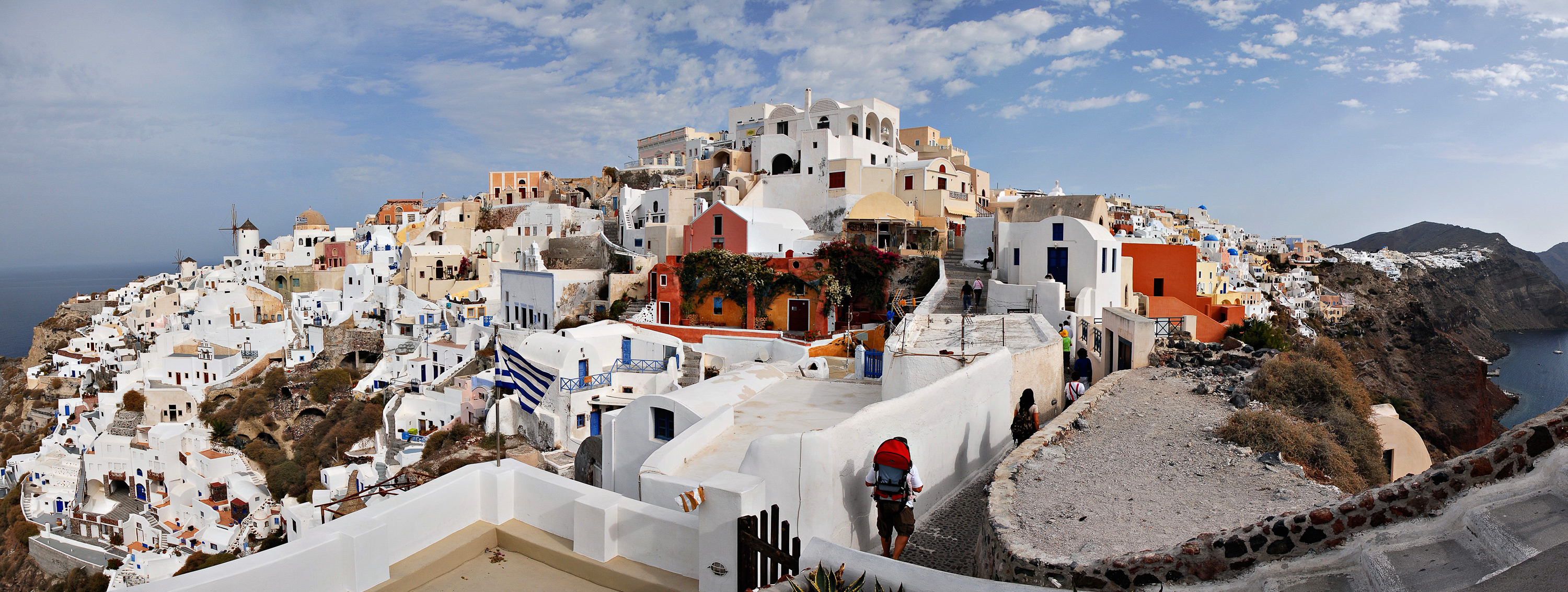 Panoramic view of Oia, Santorini island (Thira), Greece.